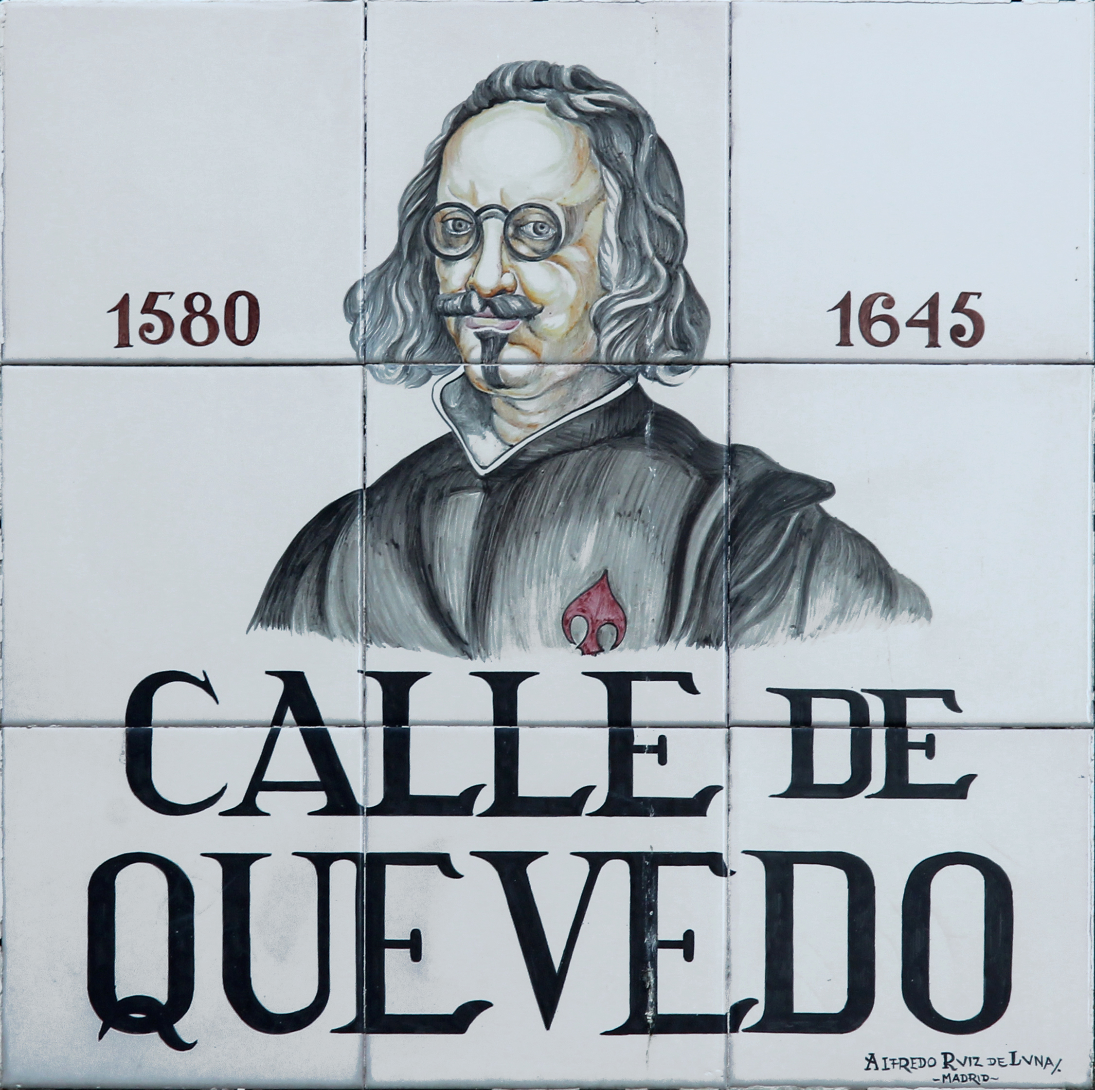 Sign of Calle de Quevedo (street) in Madrid (Spain).